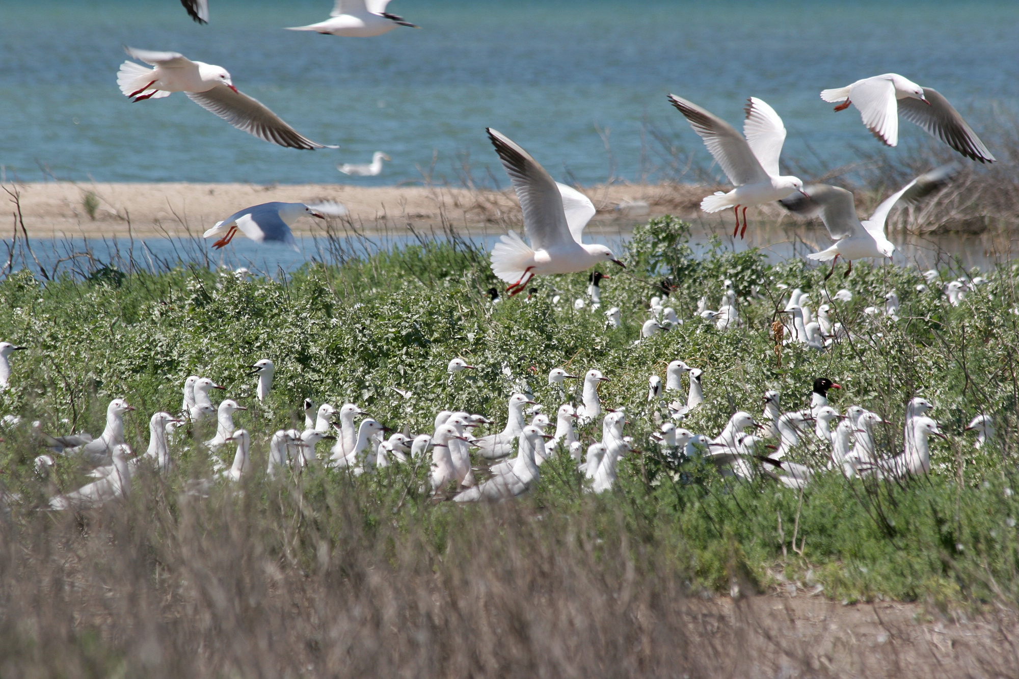 The breeding colony of the Slender-billed gull Chroicocephalus genei (and one Mediterranean Gull Ichthyaetus melanocephalus) at the Smalenyi Island (Tendrivska Bay, Black Sea Biosphere Reserve).